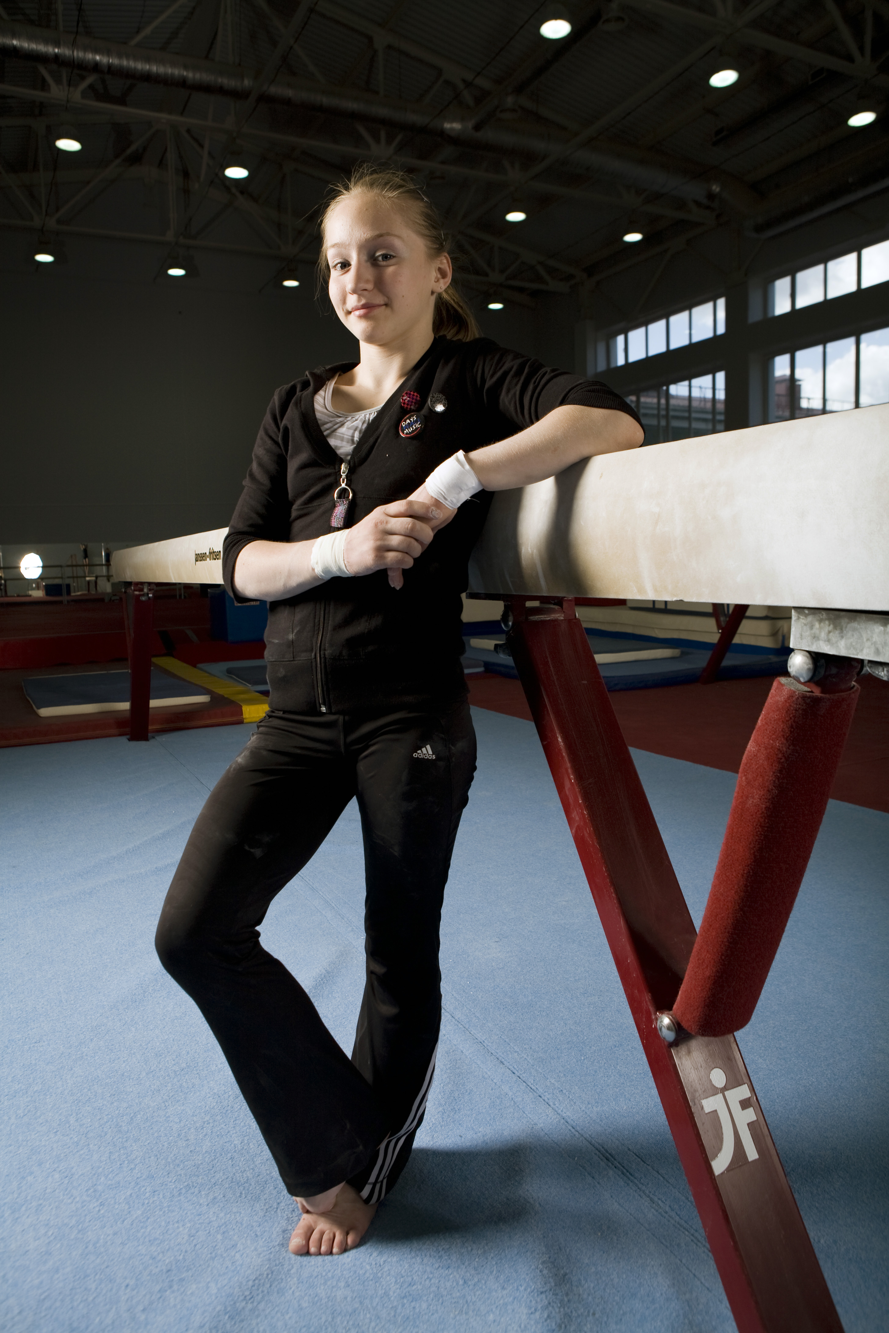 Semenova Ksenia, Russian artistic gymnast